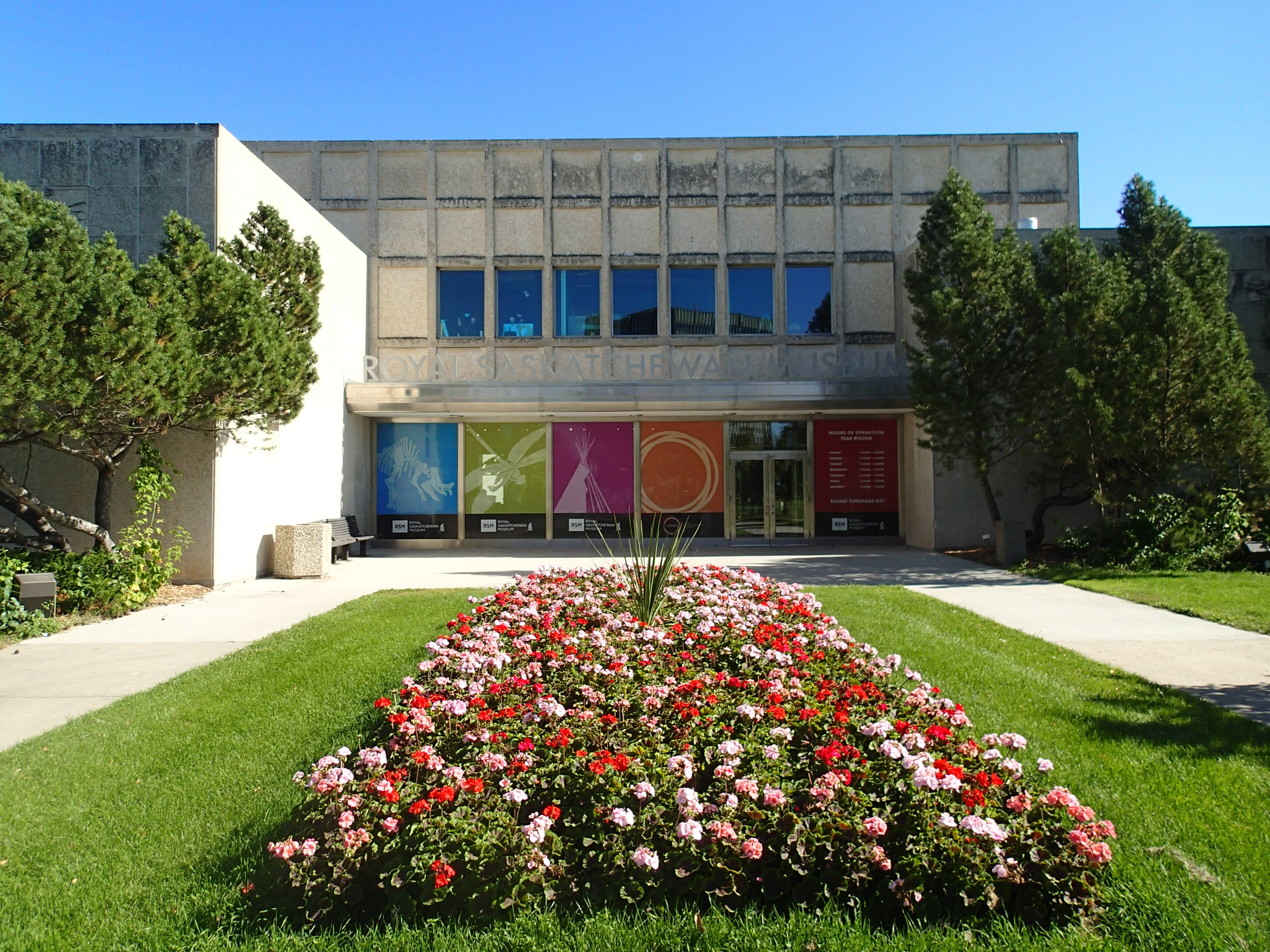 Front view of the Royal Saskatchewan Museum building.